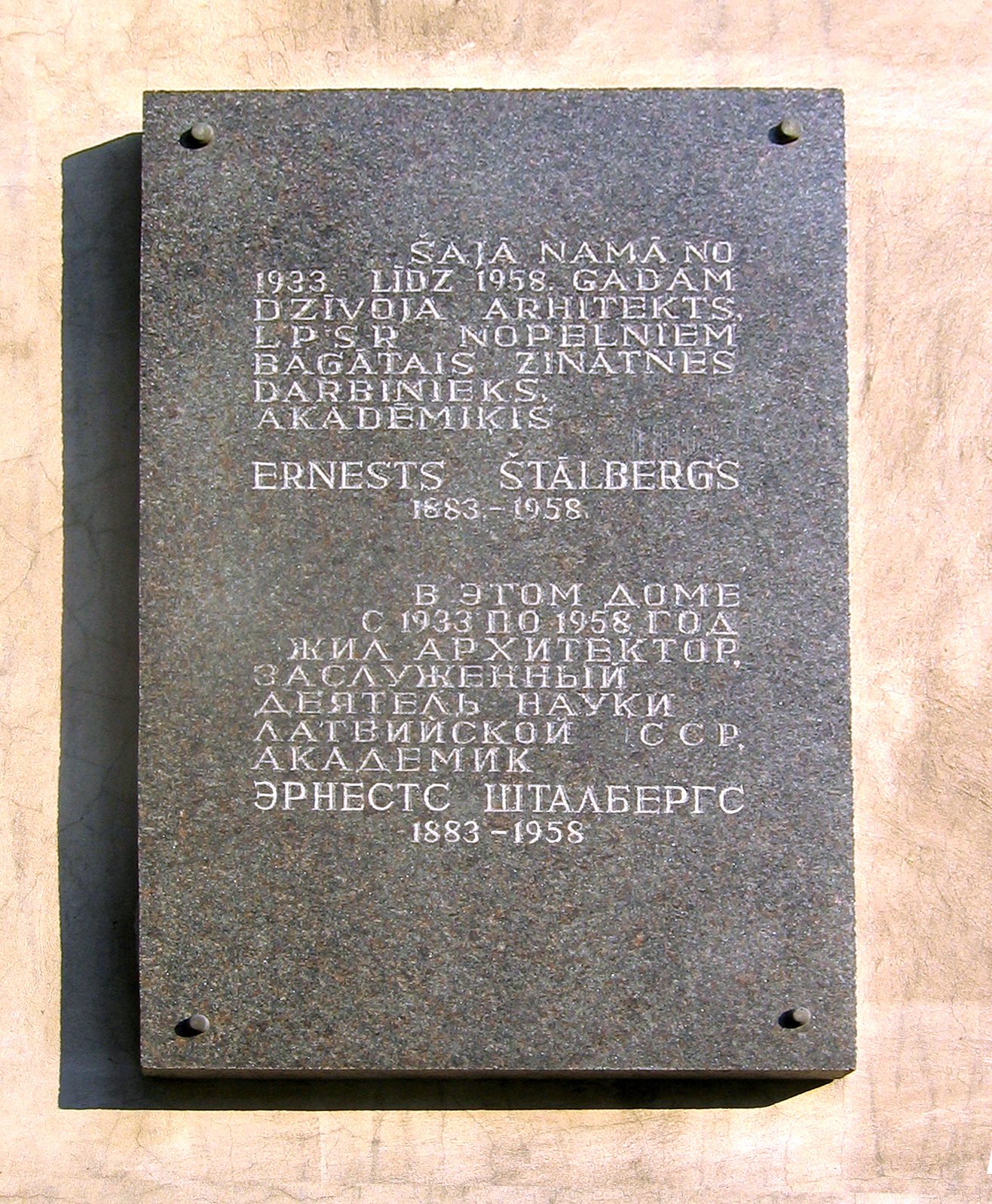 Ernests Stalbergs. Memorial tablet. Riga, Latvia.